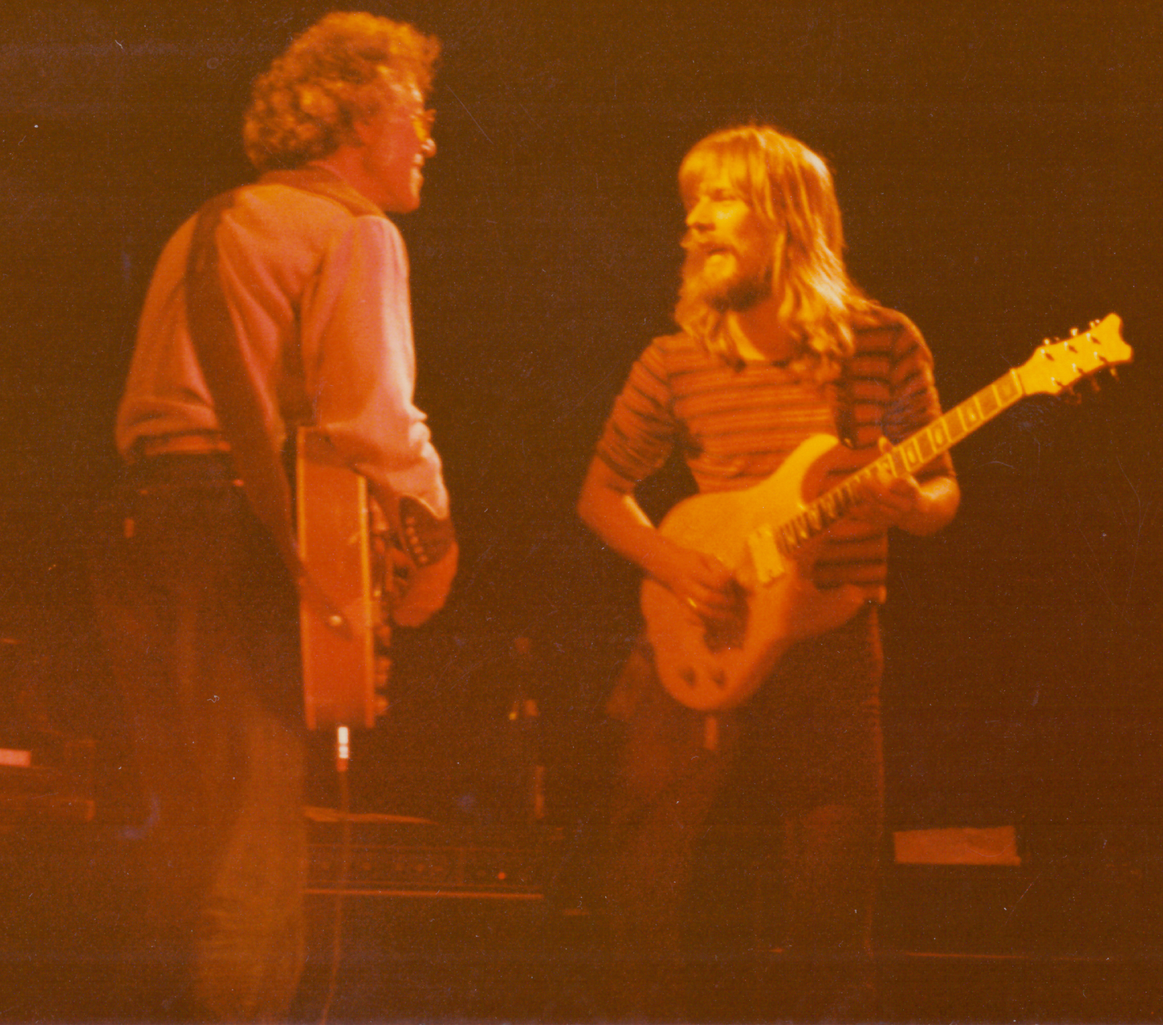 Alexis Korner together with a member of the Frankfurt City Blues Band during a concert at the townhall of Schweinfurt, June 12th 1981